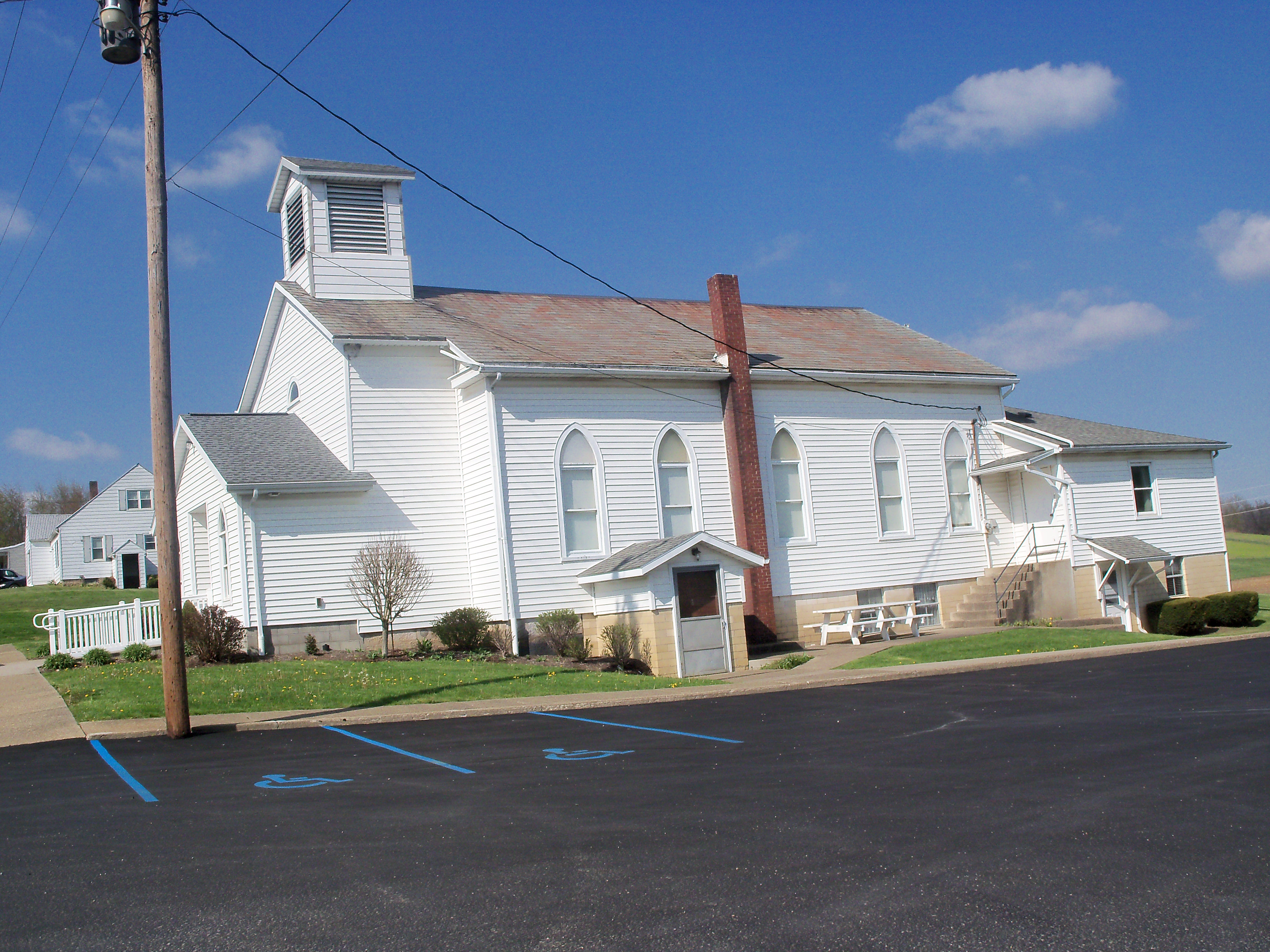 Bakersville, Ohio Presbyterian Church